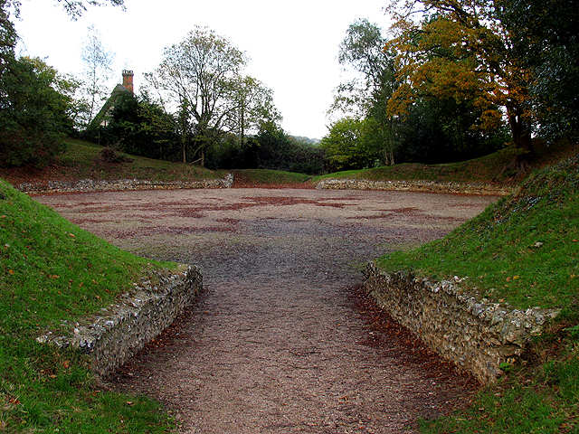 Entrance to the Amphitheatre at Calleva Silchester. A view of the amphitheatre from the entrance.